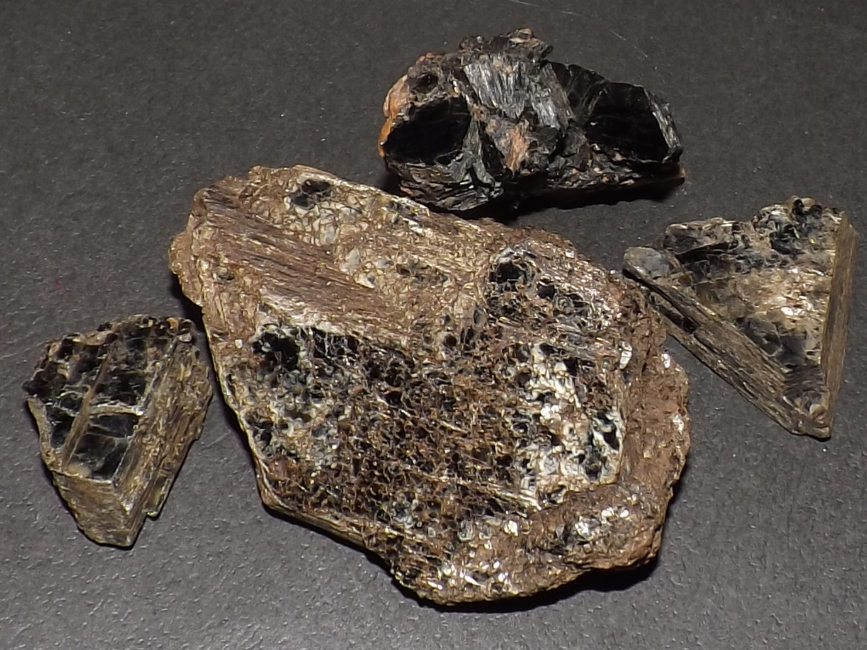 Blackish green mica found in Eastern Ontario